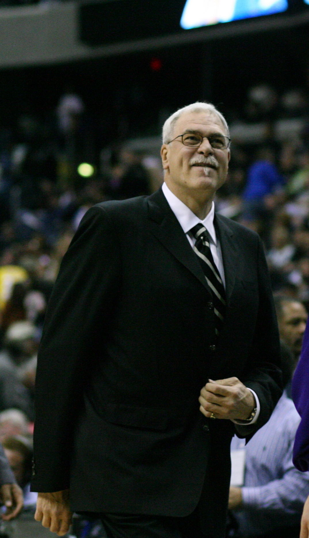 Phil Jackson, an NBA coach with 9 championships, of the Los Angeles Lakers